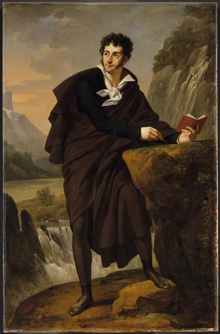 Portrait of Charles-Victor Prévost d'Arlincourt (1788-1856)